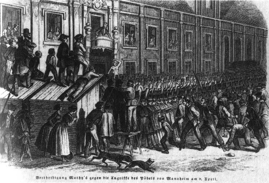 Karl Mathy, German politician (1807-1868), speaking in Mannheim on 8 April 1848